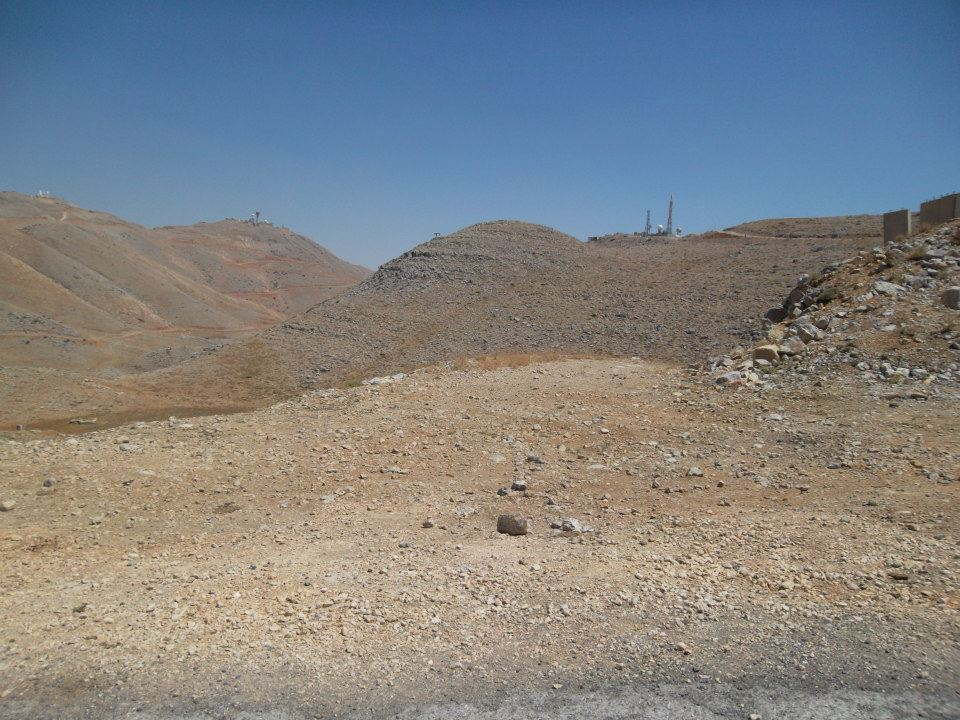 Mount Hermon landscape, looks like sci-fi.